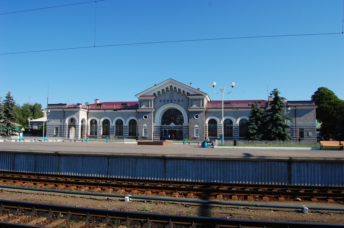 Railway station in Konotop (Sums'ka oblast', Ukraine)